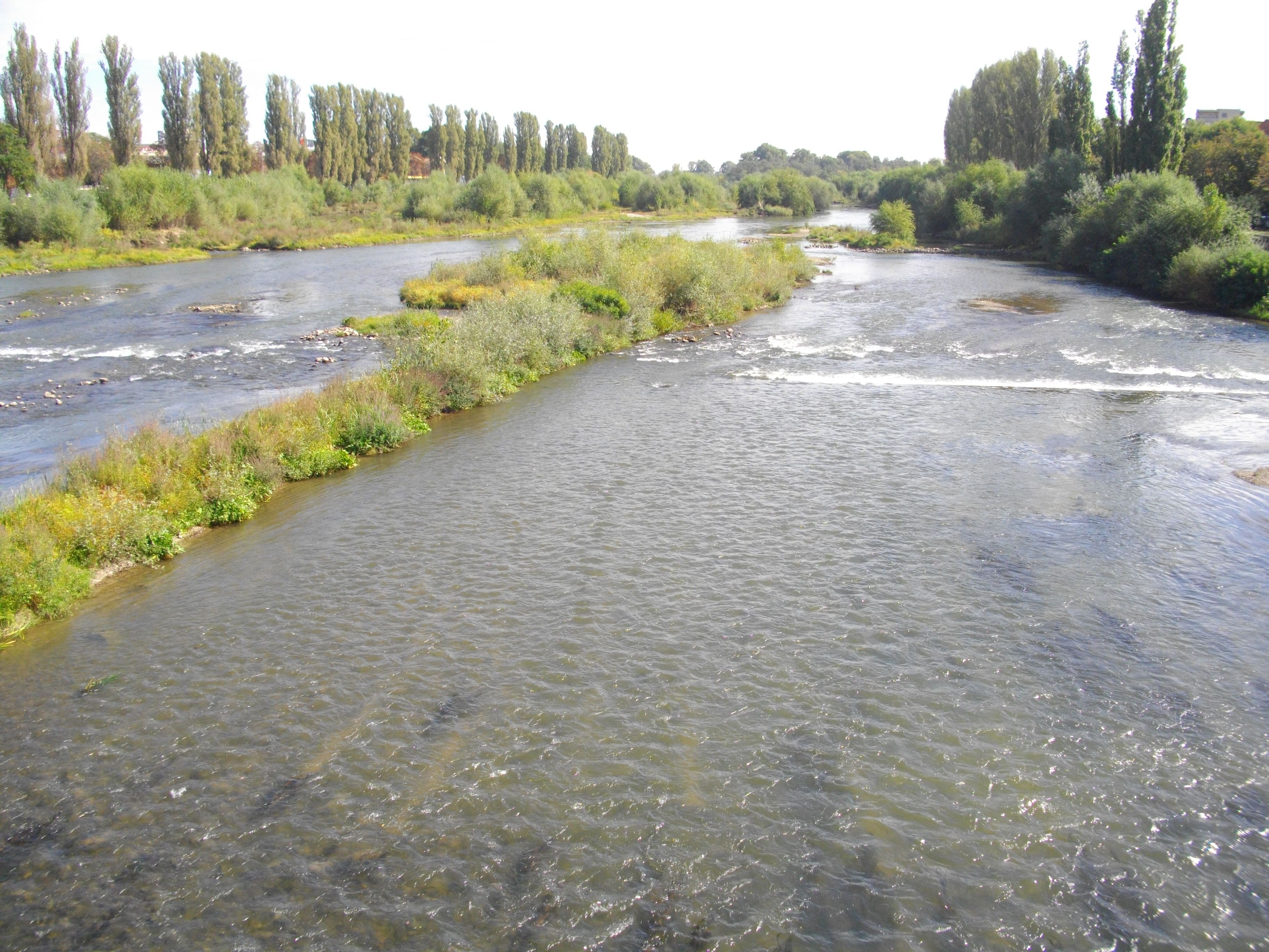 Maritsa River in Plovdiv